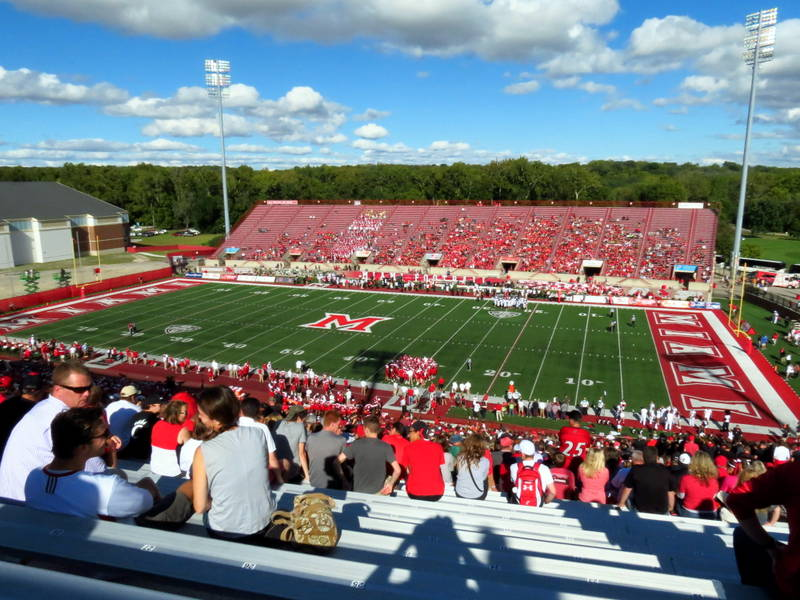 University of Cincinnati Bearcats at Miami University Redhawks